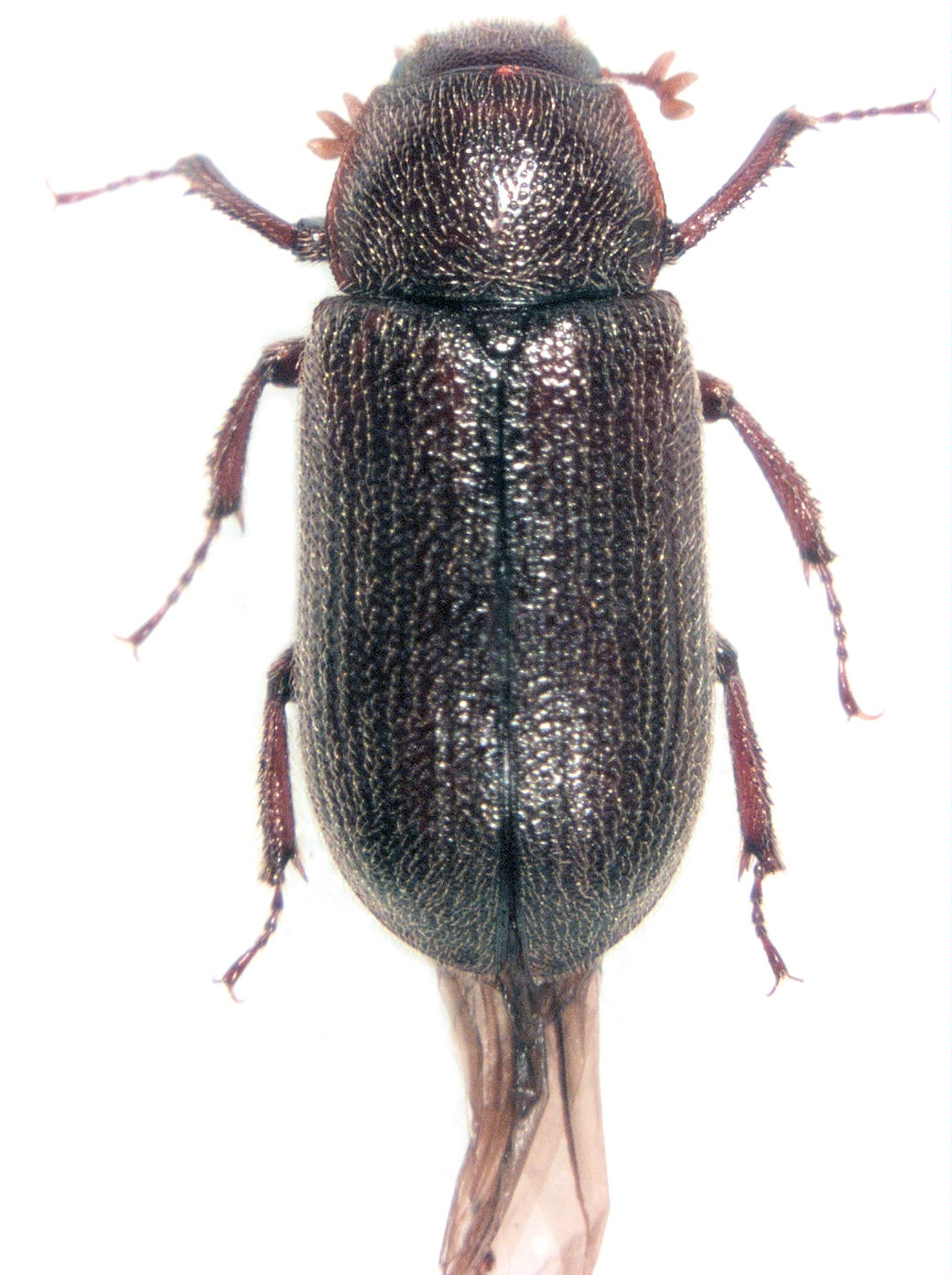 adult Holloceratognathus cylindricus